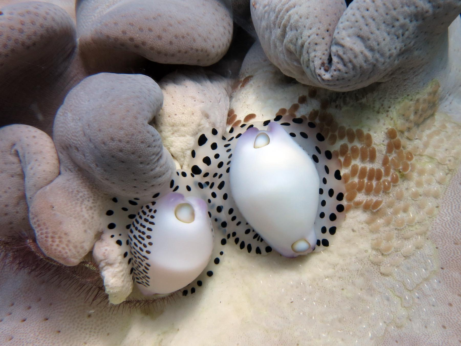 2014 11 Moalboal 35 cowry with pretty skirt